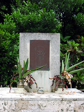 Nakayoshi-Jizo, a memorial commemorating the 1959 Kadena Air Base F-100 crash at Miyamori Elementary School. Located at the inner garden of Miyamori Elementary School, Ishikawa, Uruma, Okinawa Prefecture